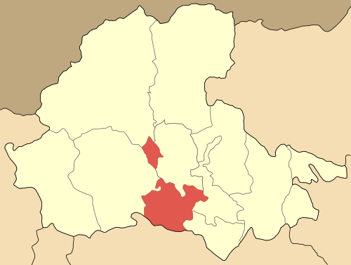 Locator map of Skydras municipality (Δήμος Σκύδρας) at Pellas perfecture, Macedonia, Greece.